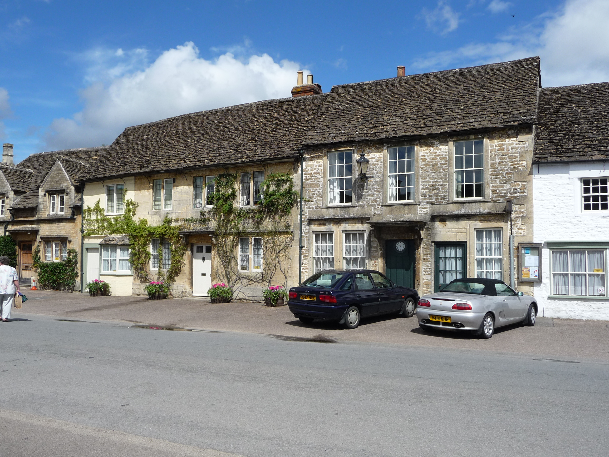 Houses in Lacock